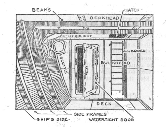 Parts of a water-tight compartment (Seaman's Pocket-Book, 1943).jpgFig. 10 Watertight bulkhead and fittings.